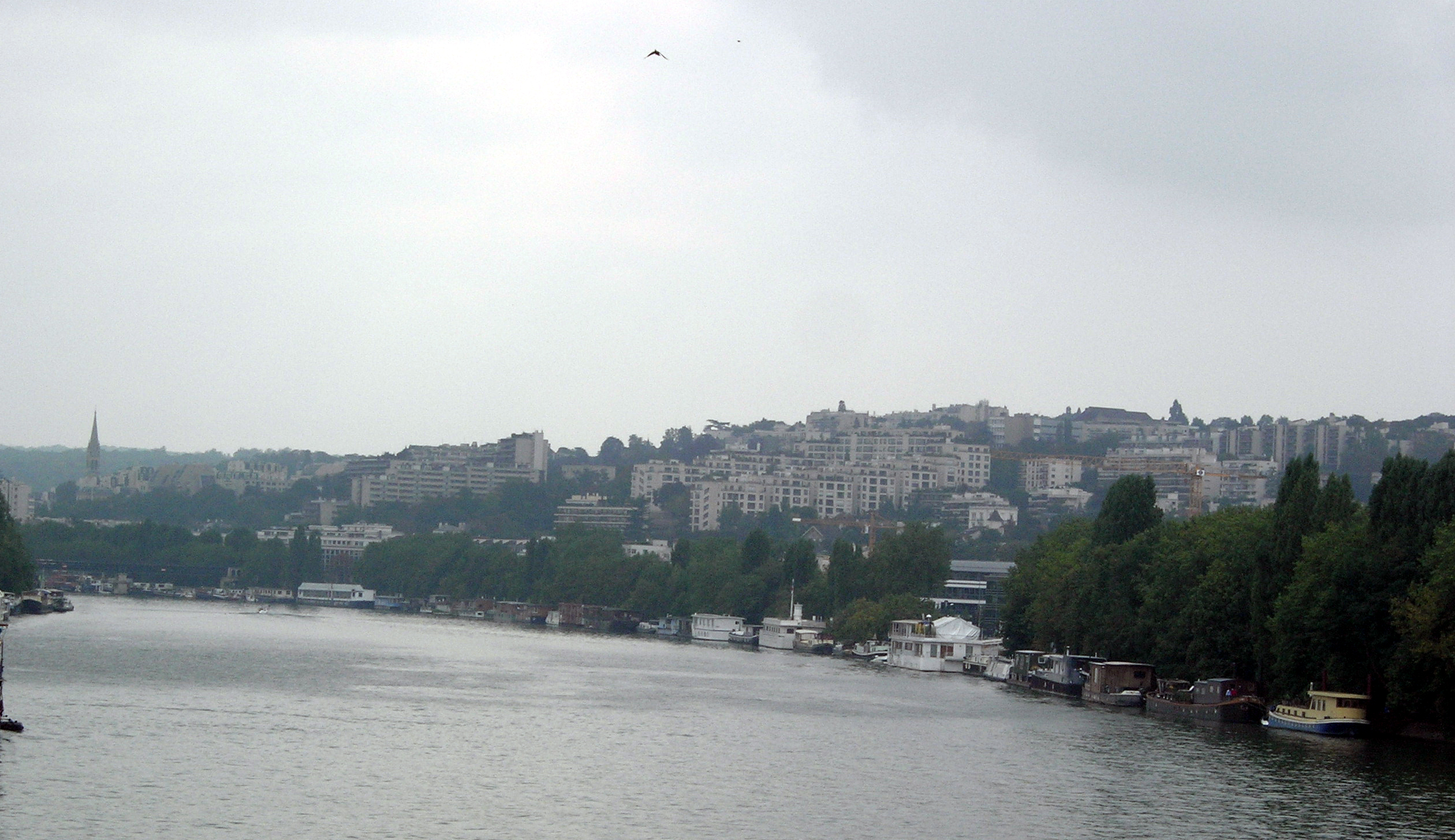 Description =Saint-Cloud au bord de la Seine Source =Photo taken by Remi Jouan Date =Septembre 2006 Author =Remi Jouan